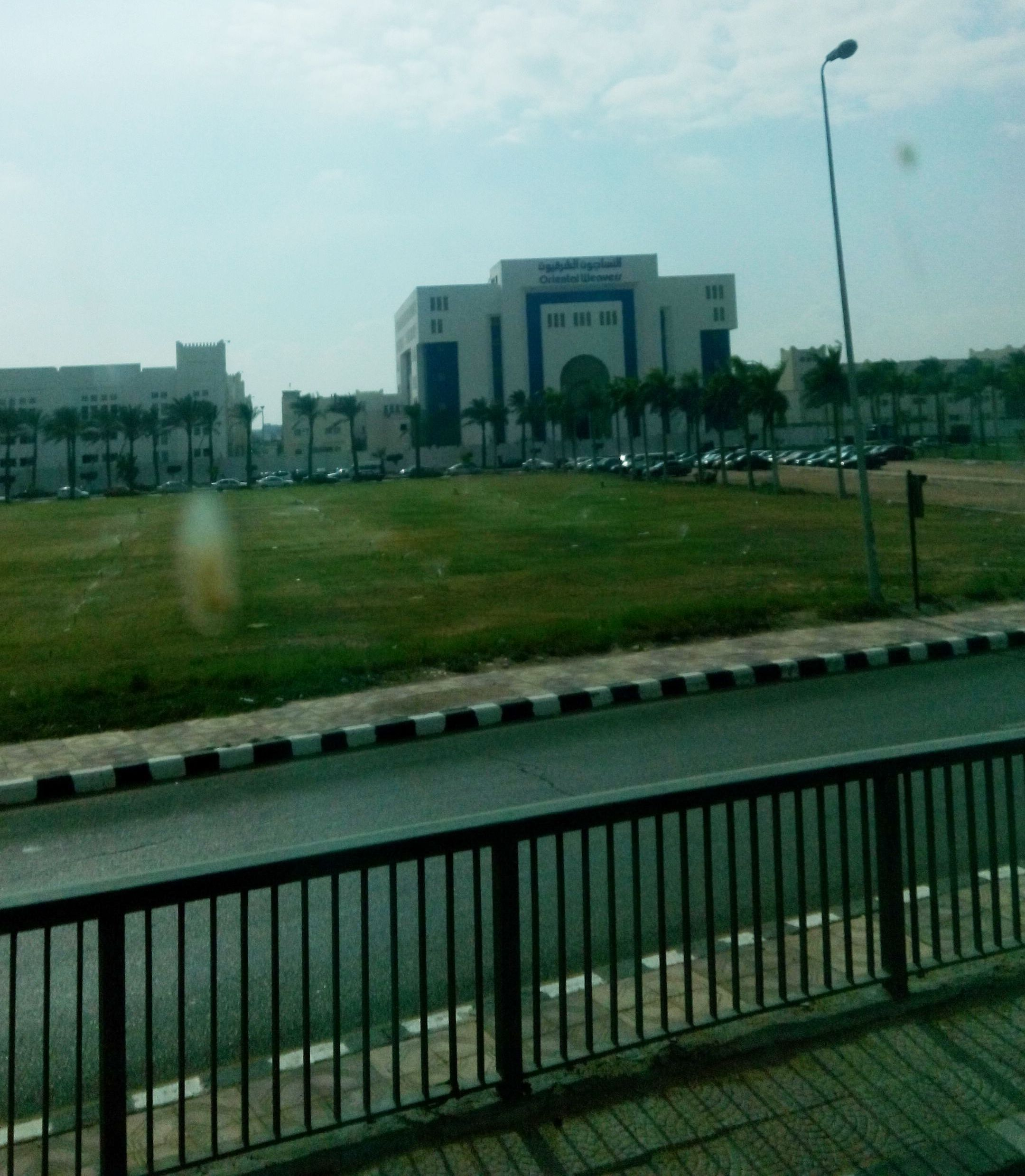 "Oriental Weavers" Company in Cairo - Ismailia road